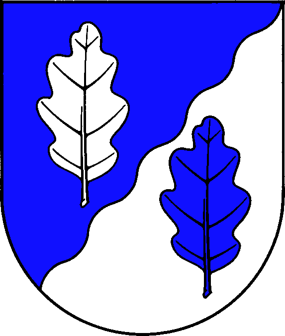 Coat of arms of the municipality Todenbüttel in Schleswig-Holstein, Germany.